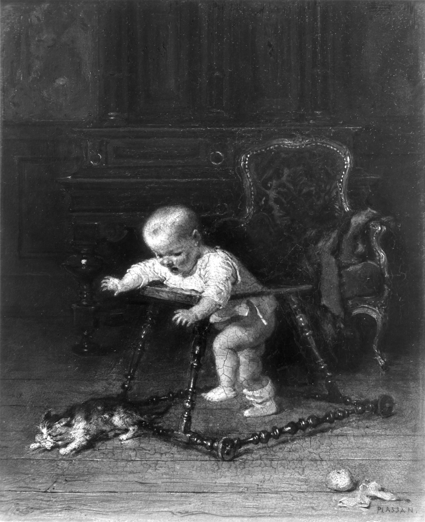 A red-haired infant boy, enclosed in a wheeled wooden walker, angrily pursues a cat across the floor. In the right foreground lies an apple and one of the child's stockings. In the background appear a rococo-style armchair and a baroque-style cupboard, rendered in light wood with contrasting panels of black ebony, raised on baluster legs.